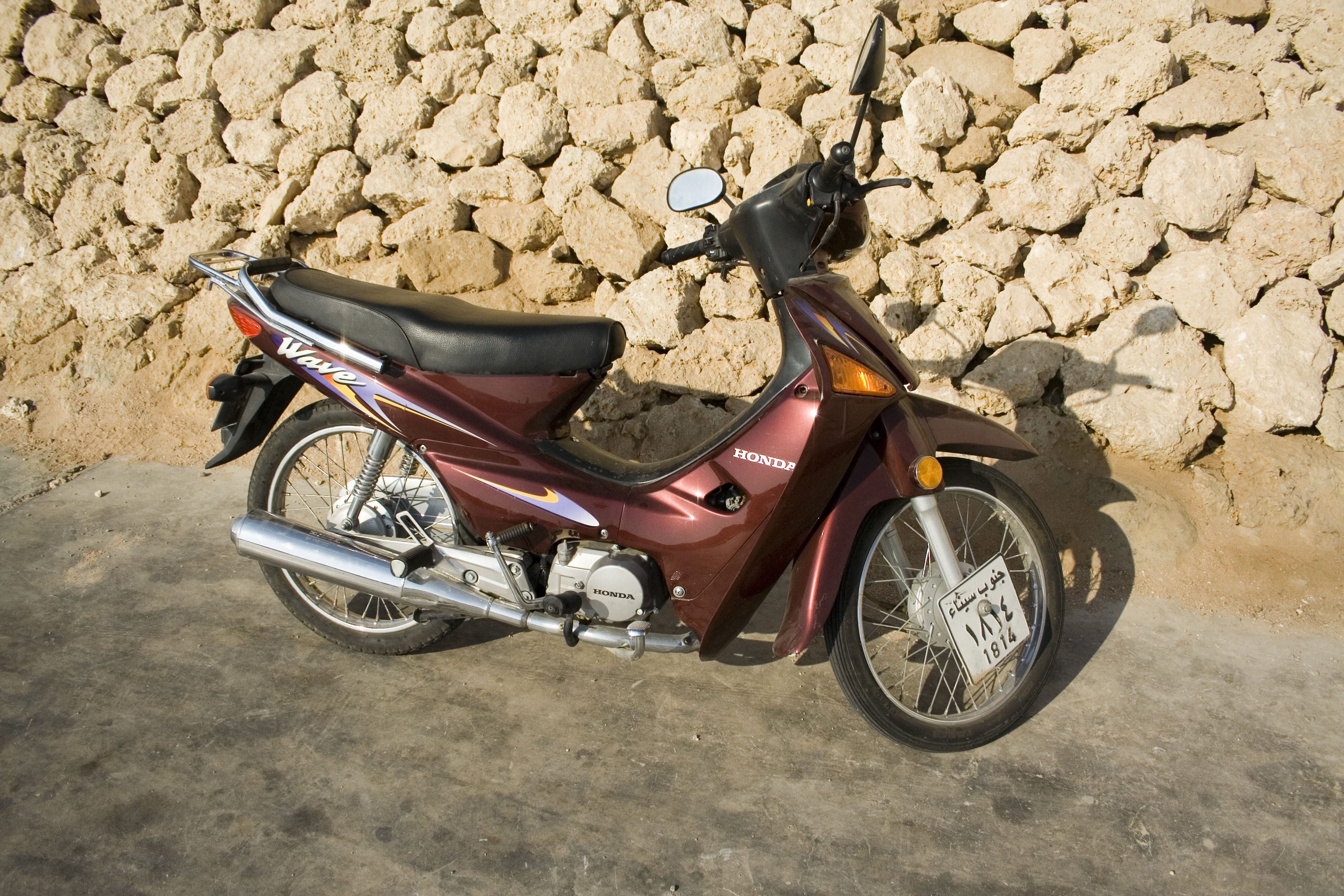 Honda Wave moped